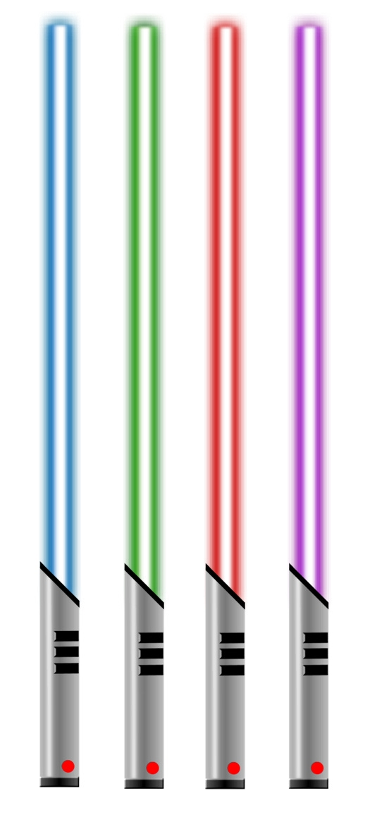 A collection of drawn Star Wars lightsabers. Please notice that the design of the swordhandle is personal/fictional, and NOT based on "real" Star Wars designs.